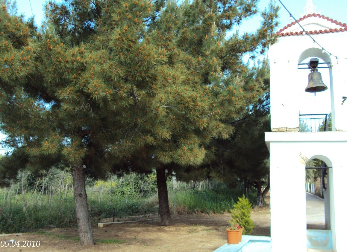 Patrial view of the Christian Orthodox church in Stavros (Dresthena) village, Achaia, Greece.